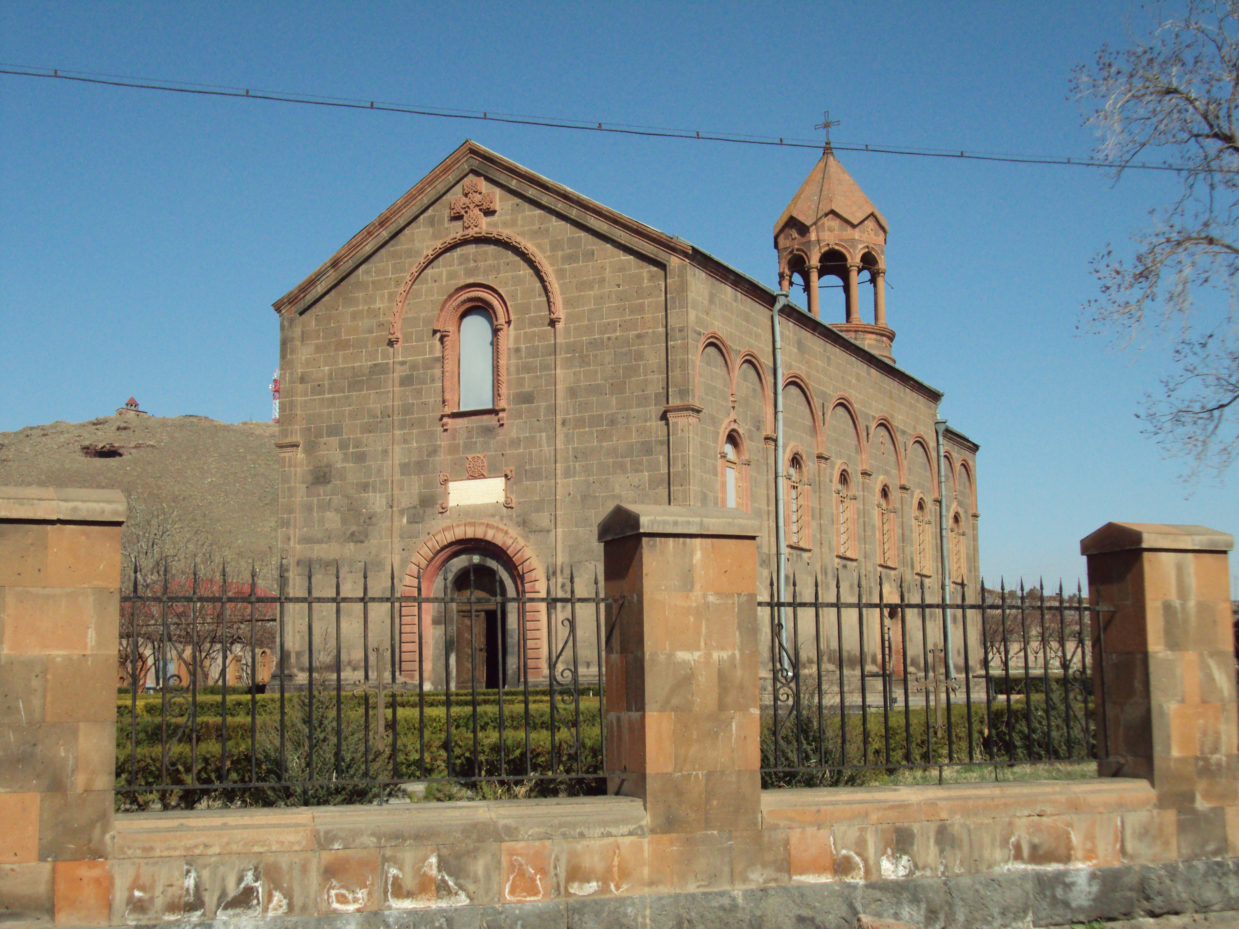 Mesrop Mashtots Church (1875), Iinside the Church is the entrance to the tomb of Mesrop Mashtots (442-443)